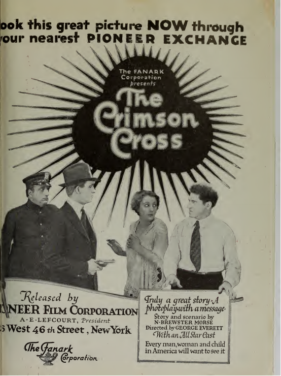 Advertisement for the American drama film The Crimson Cross (1921), directed by George Everett.